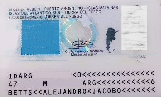 Argentine identity card of Alejandro Betts, born on Malvinas Islands, Tierra del Fuego Province. Mr. Betts has the address in Puerto Argentino.